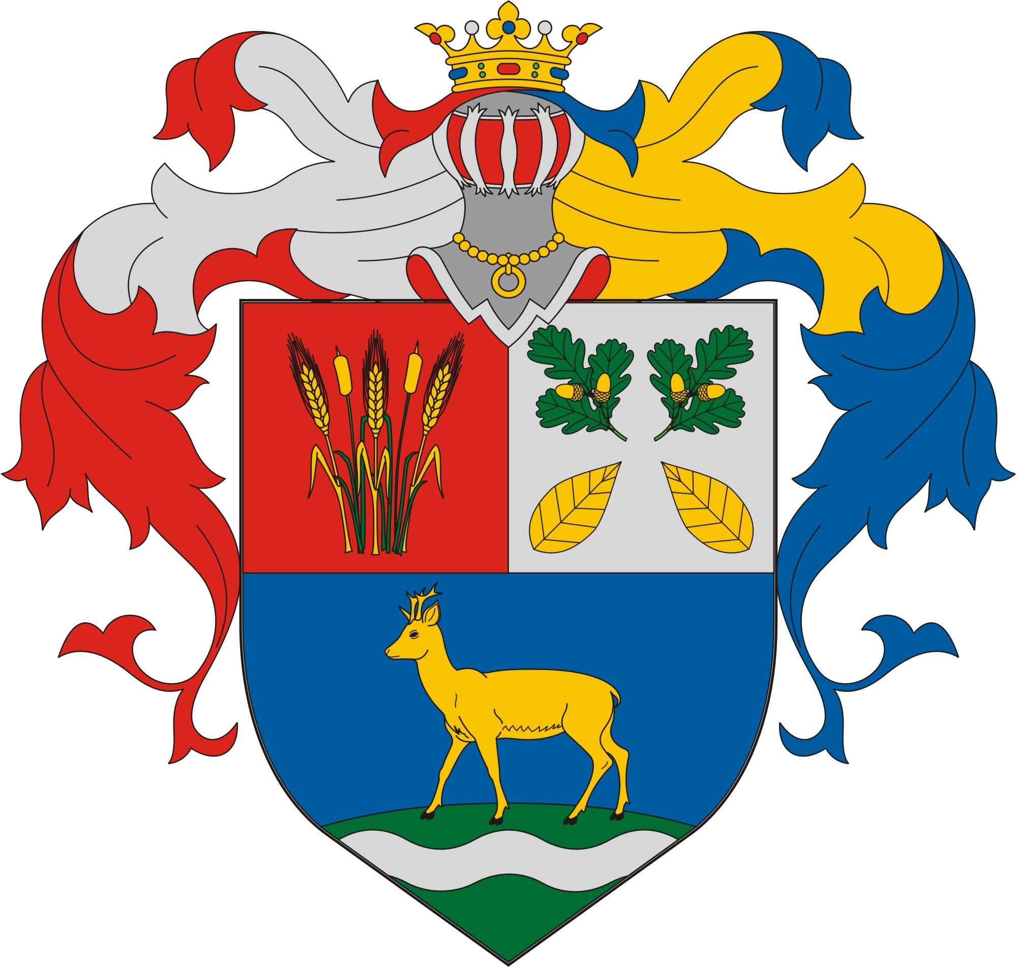 Coat of arms of Dóc, Hungary